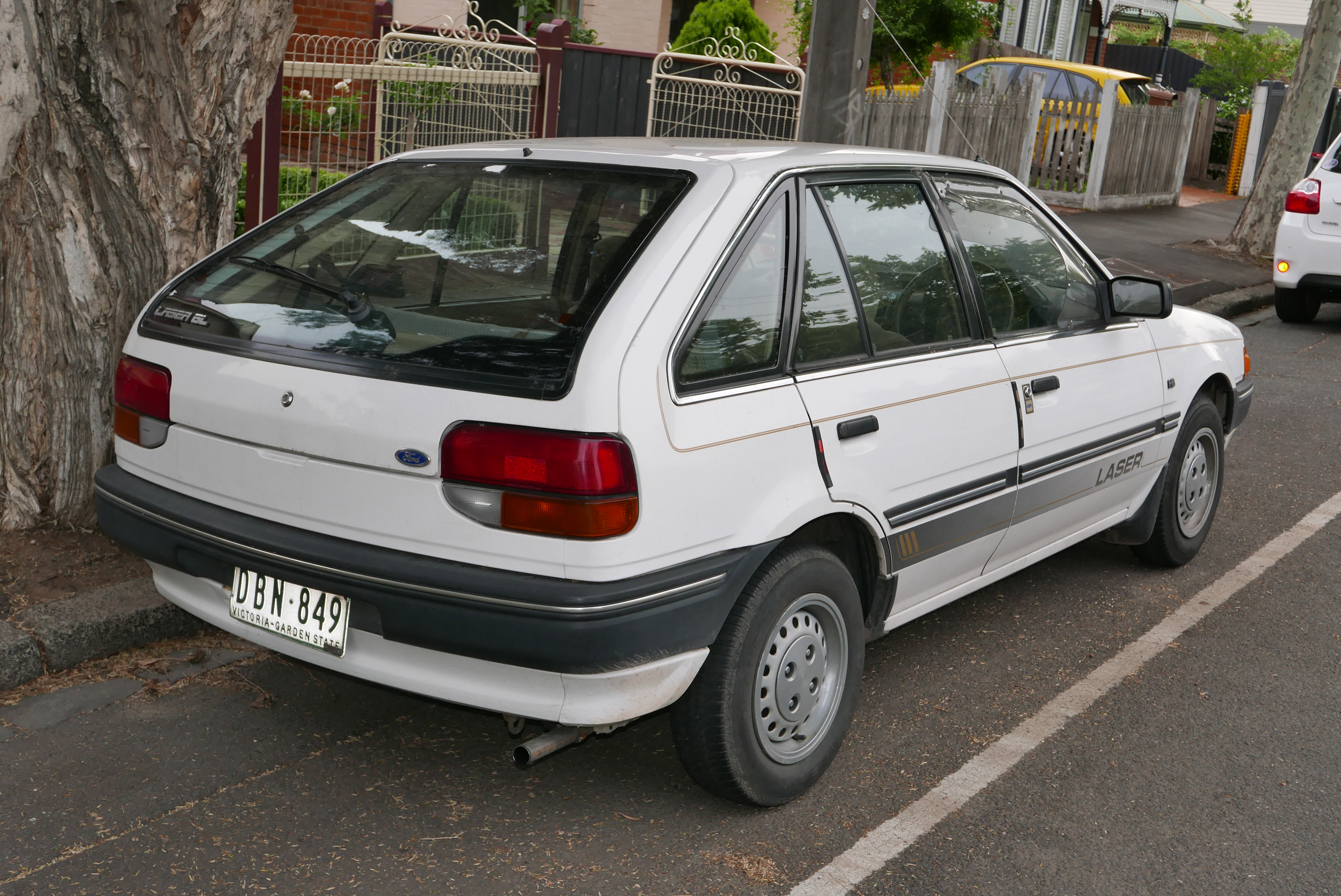 1987 Ford Laser (KC) GL 5-door hatchback. Photographed in Ascot Vale, Victoria, Australia. Vehicle registration enquiry results Jurisdiction Victoria Registration DBN849 Chassis code Not available Engine code UK4RGR28408L Compliance date Not available Year of manufacture 1987